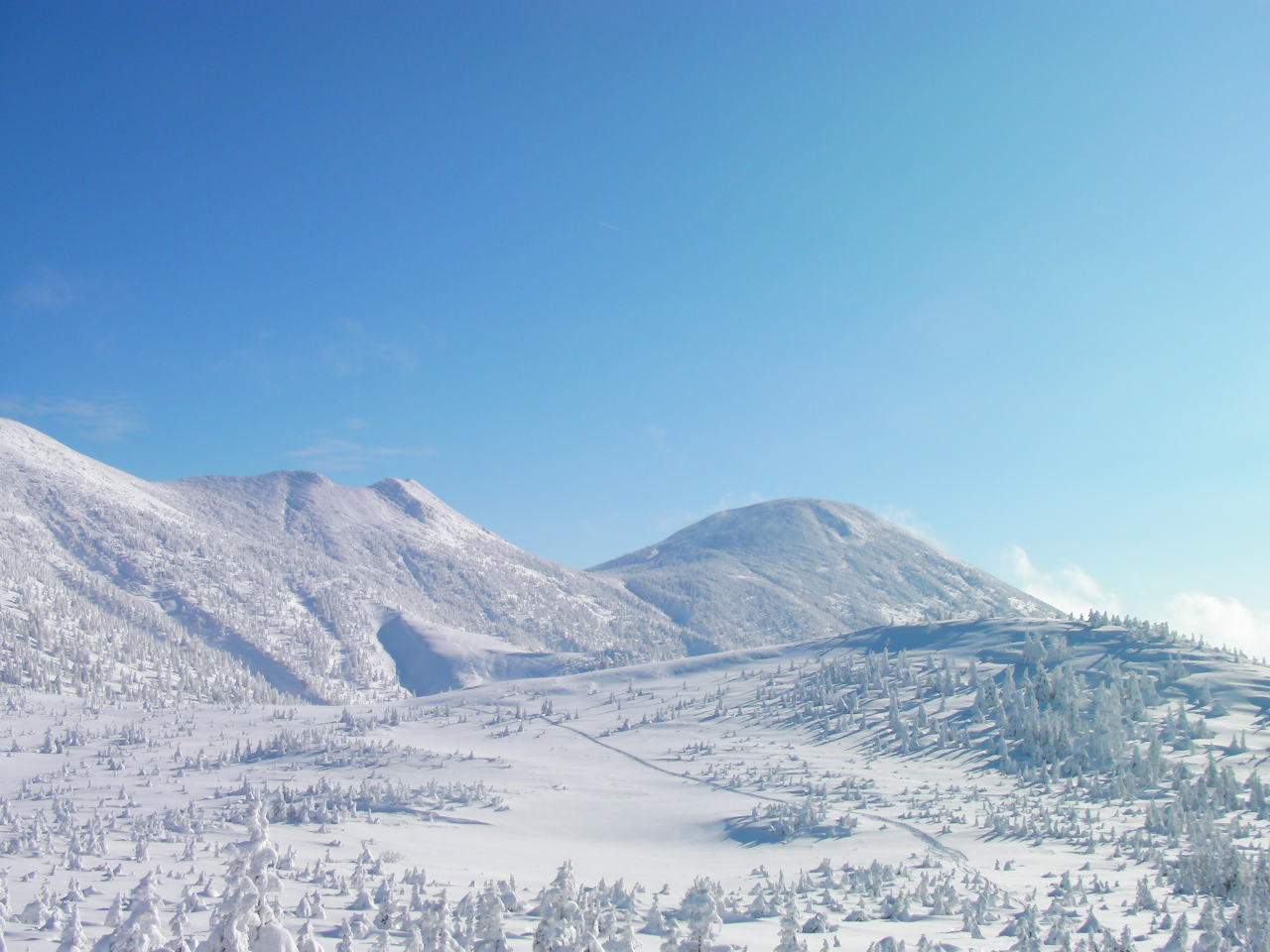 Hakkoda Mountains's Idodake peak (left) and Odake peak (right). Looking ESE.